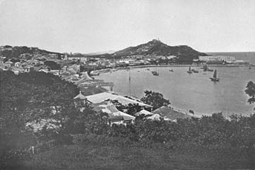 English